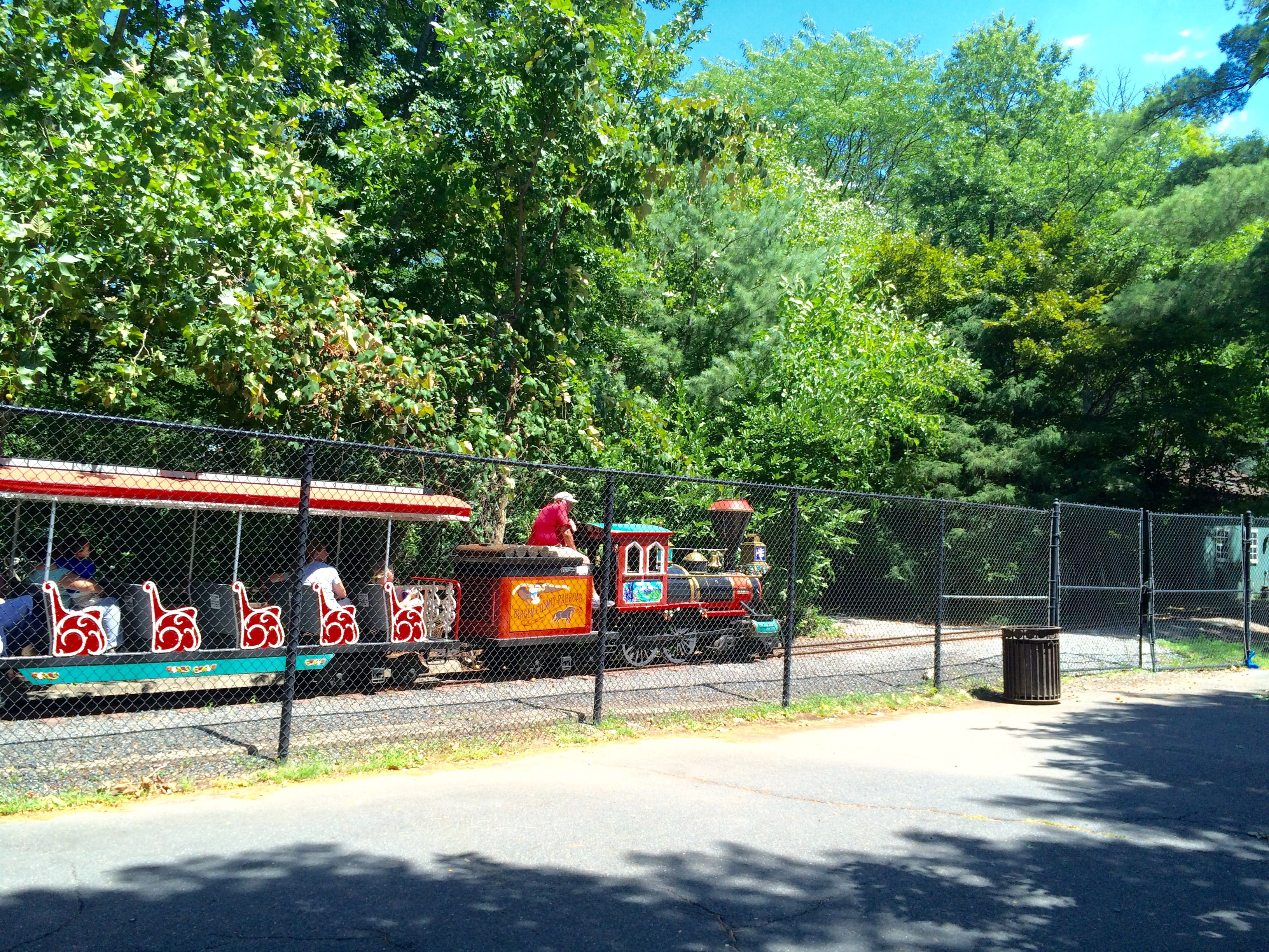 The Van Saun Park Train Ride. This is the 520 train, one of the three trains used in the park.